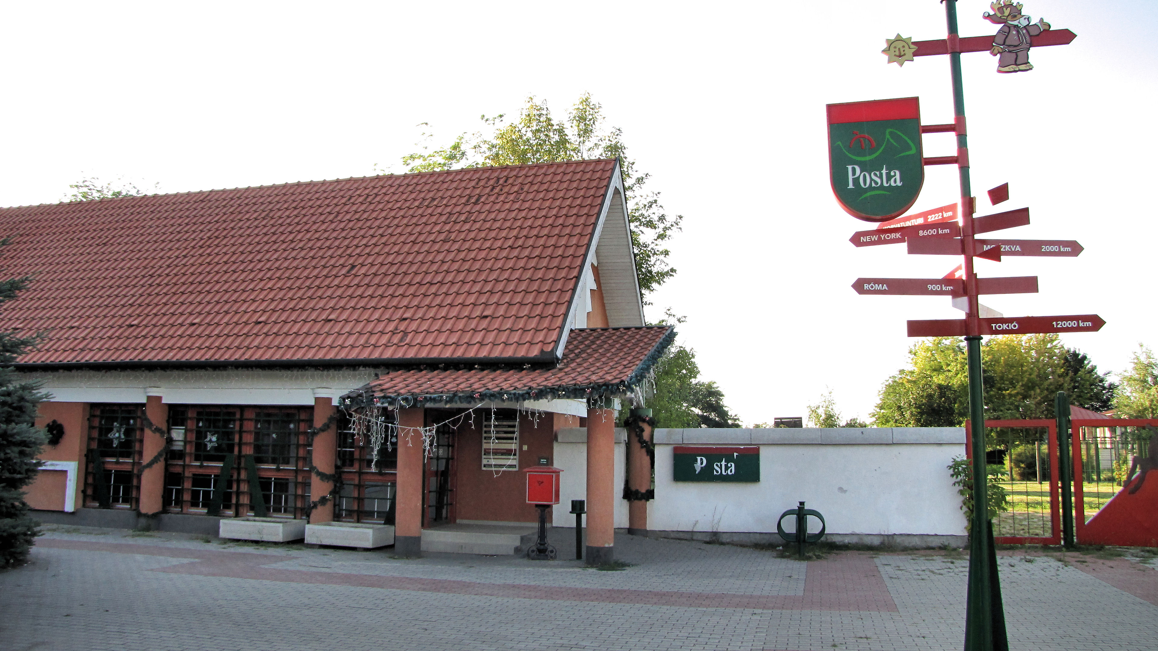 Nagykarácsony, post office.